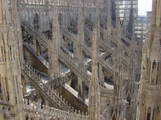 Cathedral in Milan, Italy. A detail from the roof. Picture by Giovanni Dall'Orto, July 18 2003.